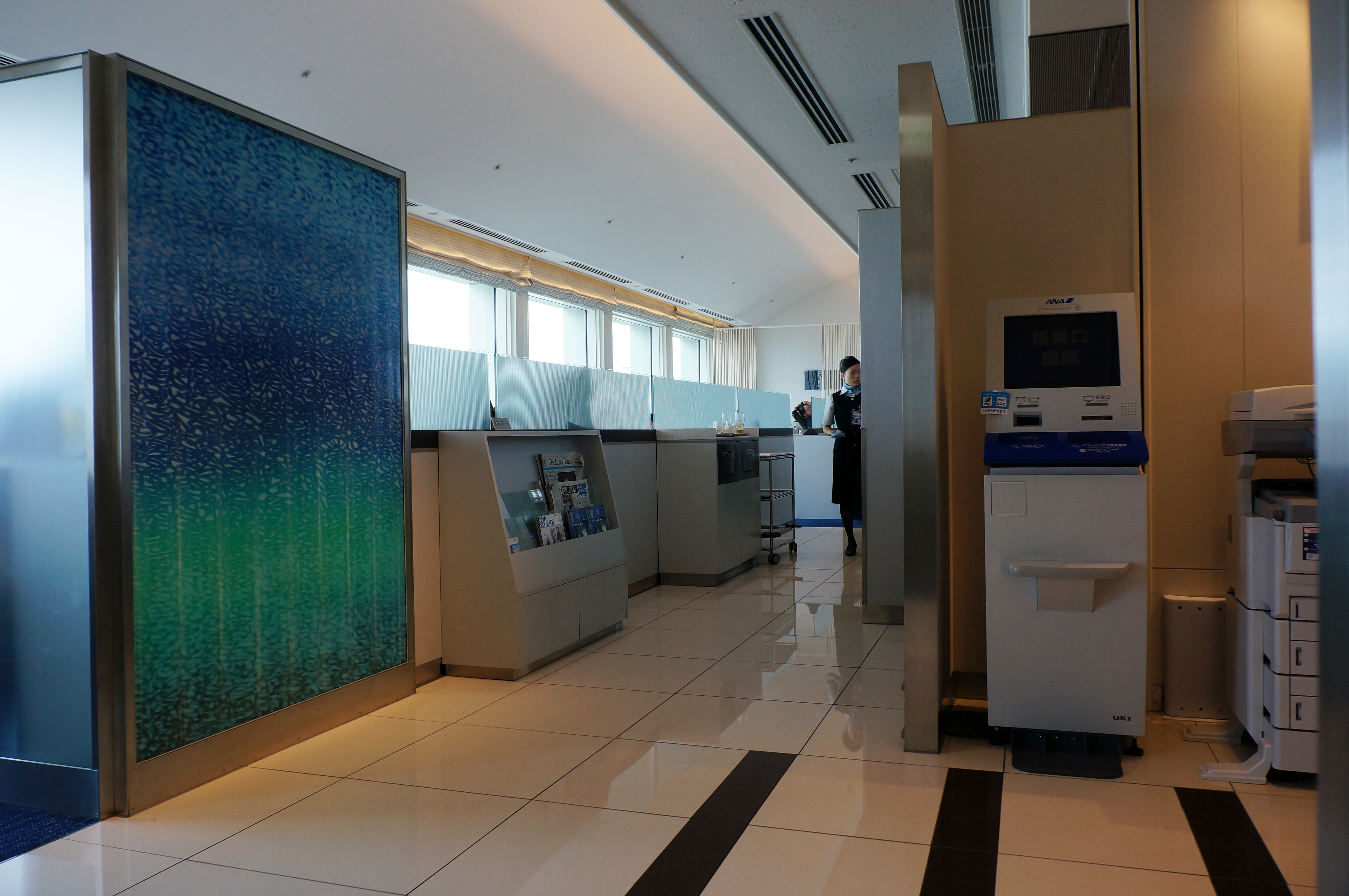 ANA Lounge of Naha Airport in Naha, Japan.